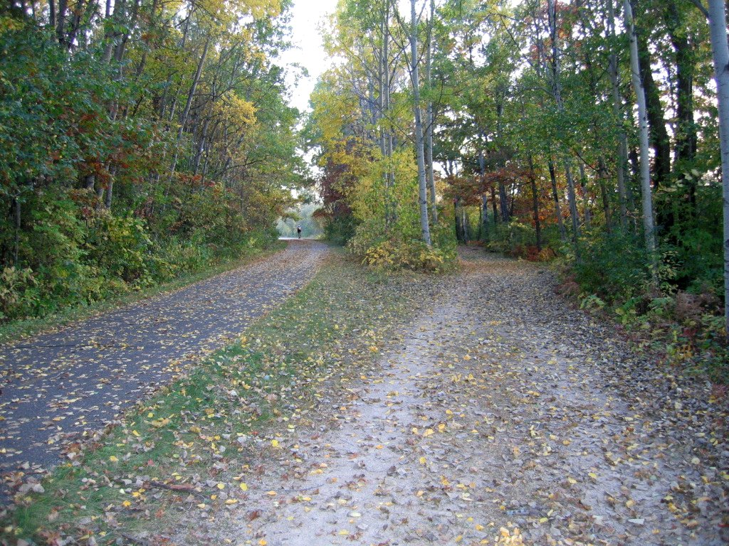 The eastern 9 miles of the Gateway State Trail include a asphalt trail for regular use and an adjacent bridal path for cross-country skiing, horseback riding, and carriages.